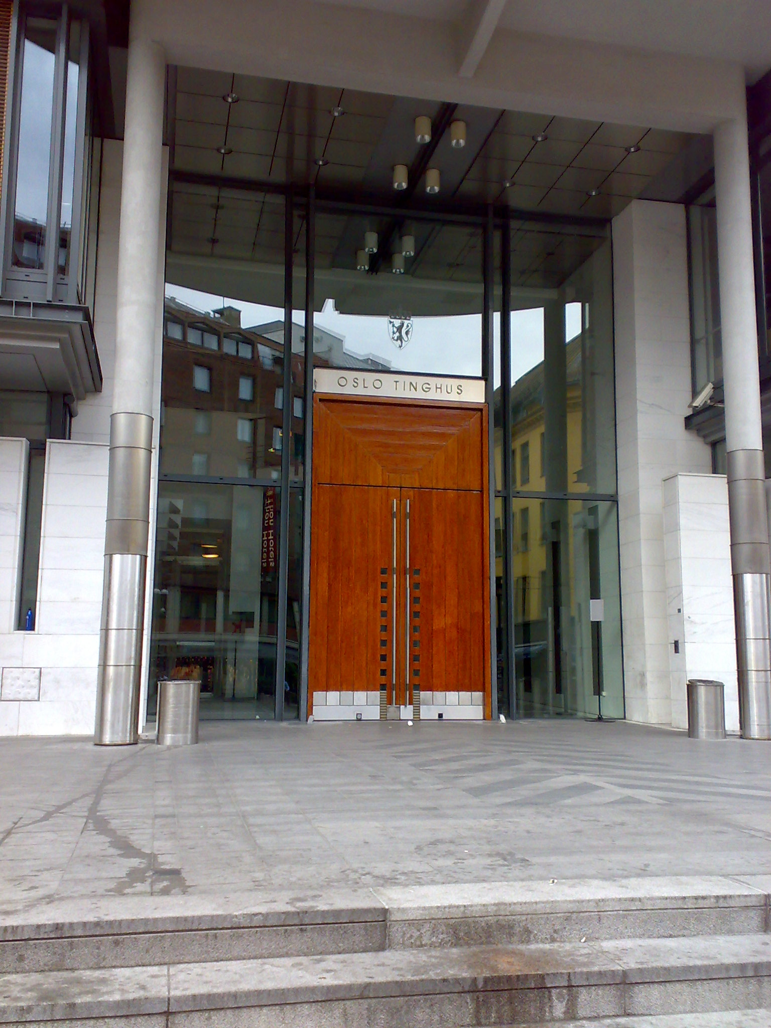 Oslo City Court, Oslo Tinghus